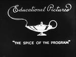 The logo of the early film company Educational Pictures.